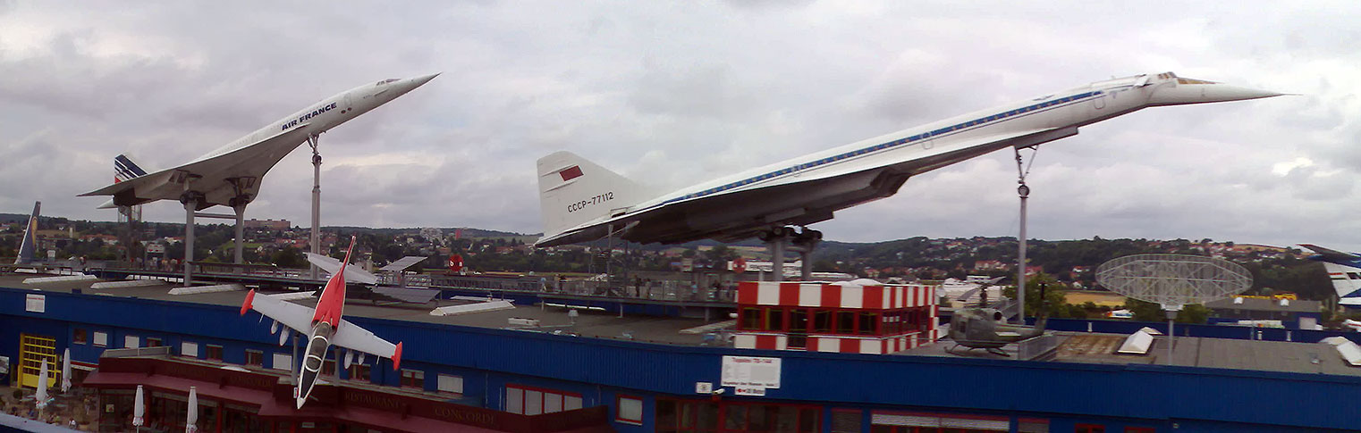 Concorde and Tupolev Tu-144 at the top of Auto- und Technikmuseum Sinsheim